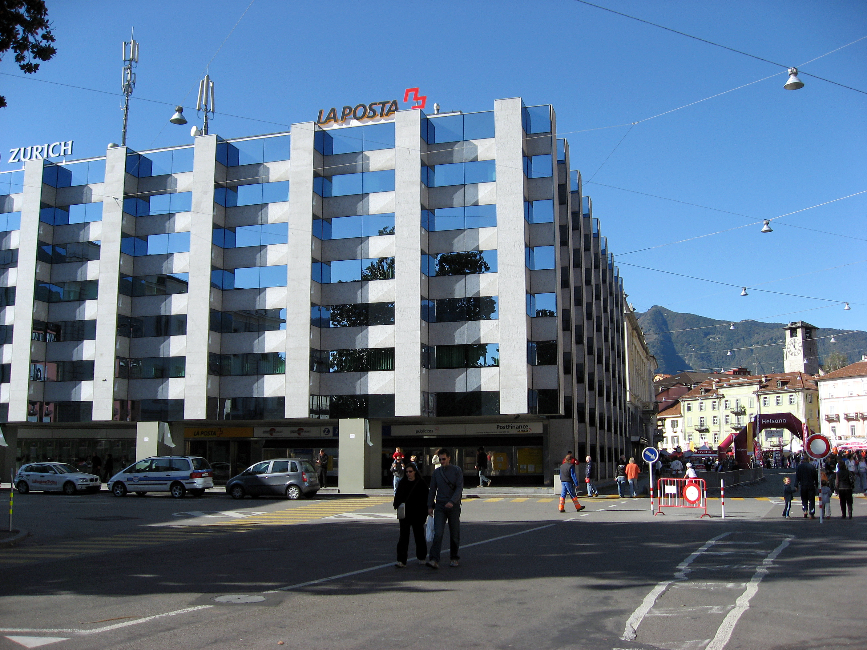 Post office building in Locarno by Livio Vacchini